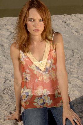 Erica Leerhsen at the screening of "The Illusionist"